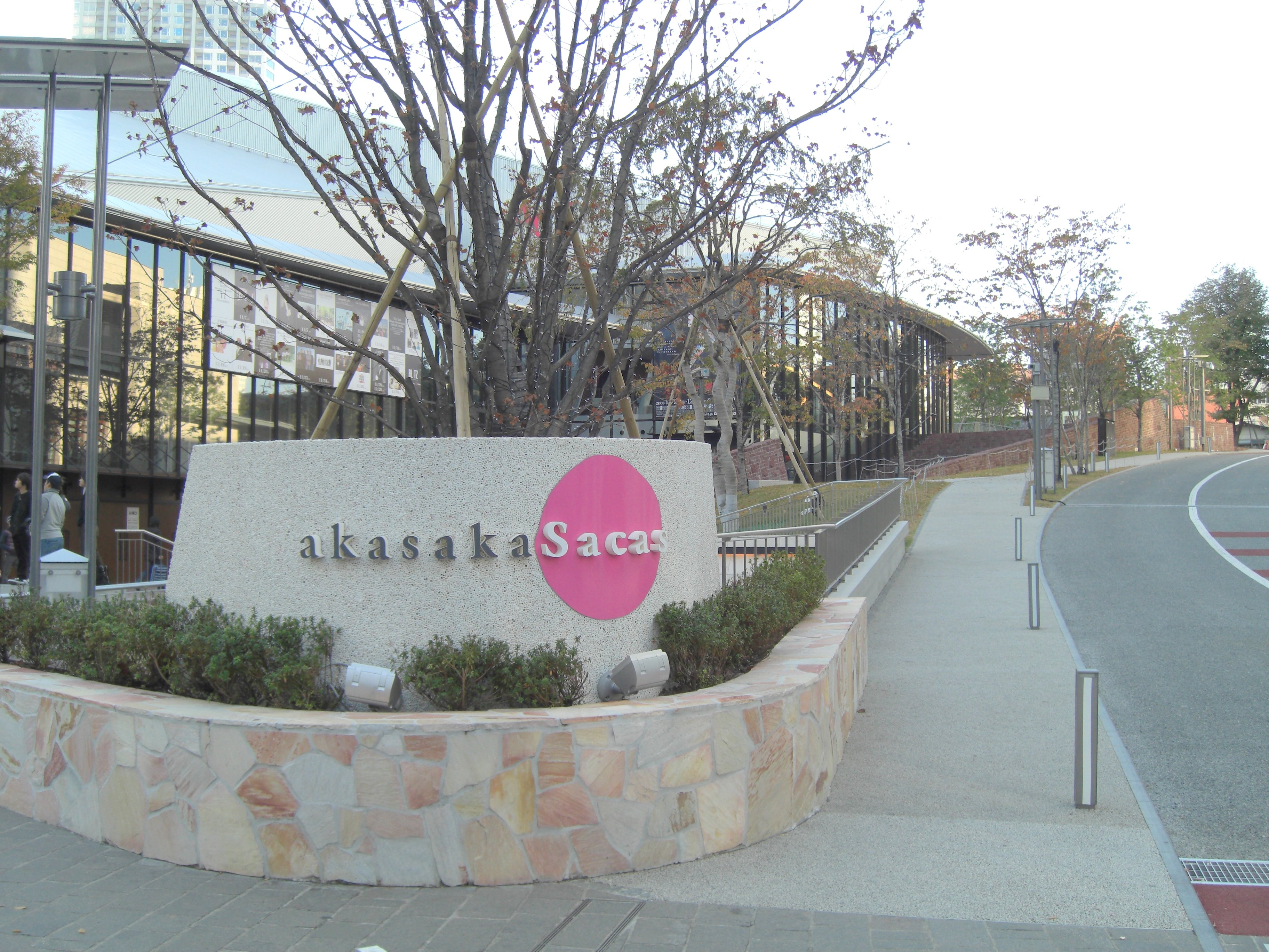 Sacas slope